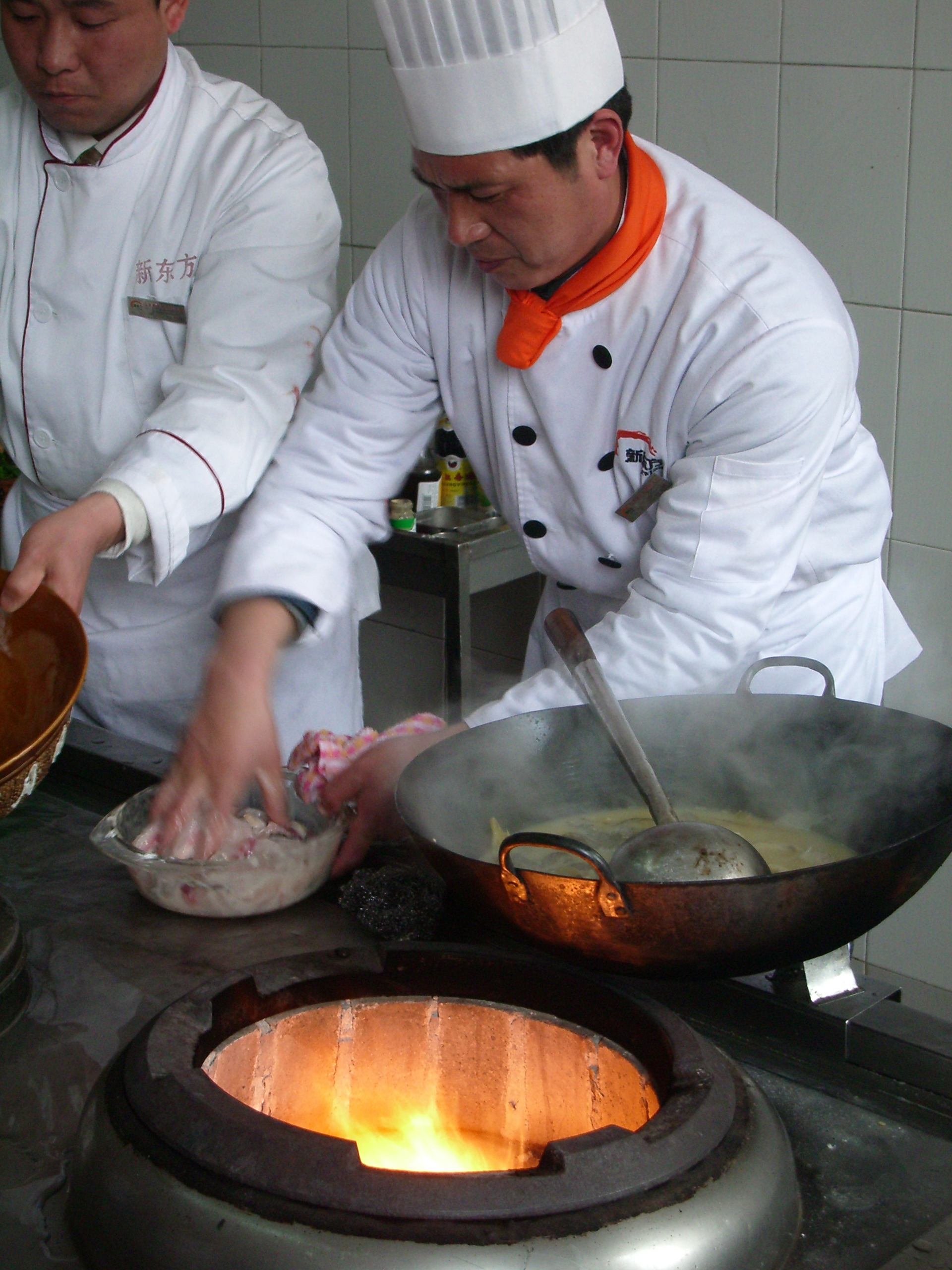 Chefs cooking with a wok in China. Preparing food over a modern pit-type wok stove.